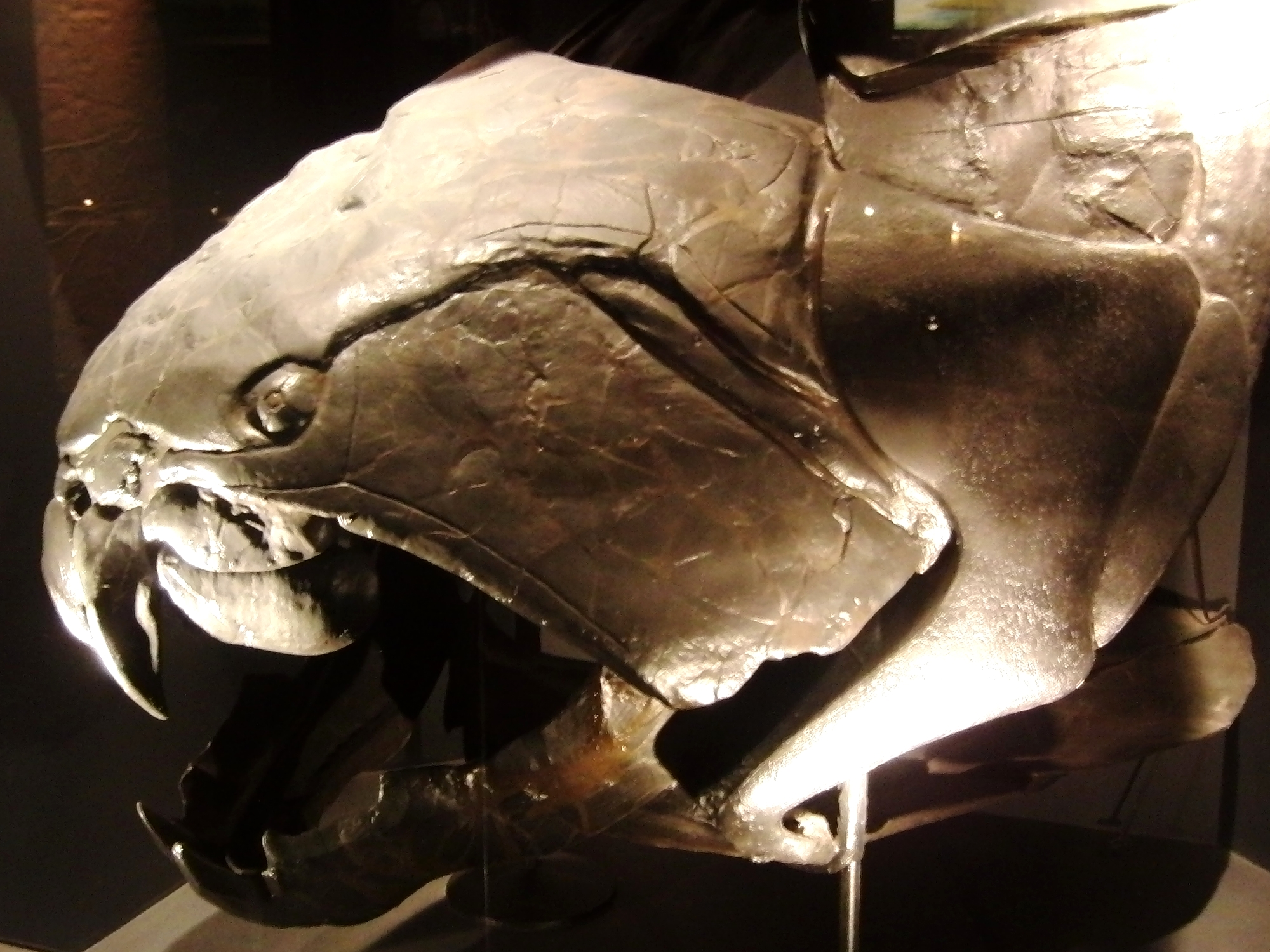 Skull of Dunkleosteus (Dunkleosteus sp.). Exhibit in the National Museum of Nature and Science, Tokyo, Japan.